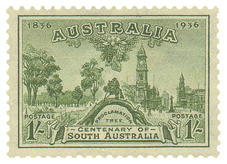 I shilling green postage stamp, Australia, 1936: The Old Gum Tree (formerly the Proclamation Tree) centenary.